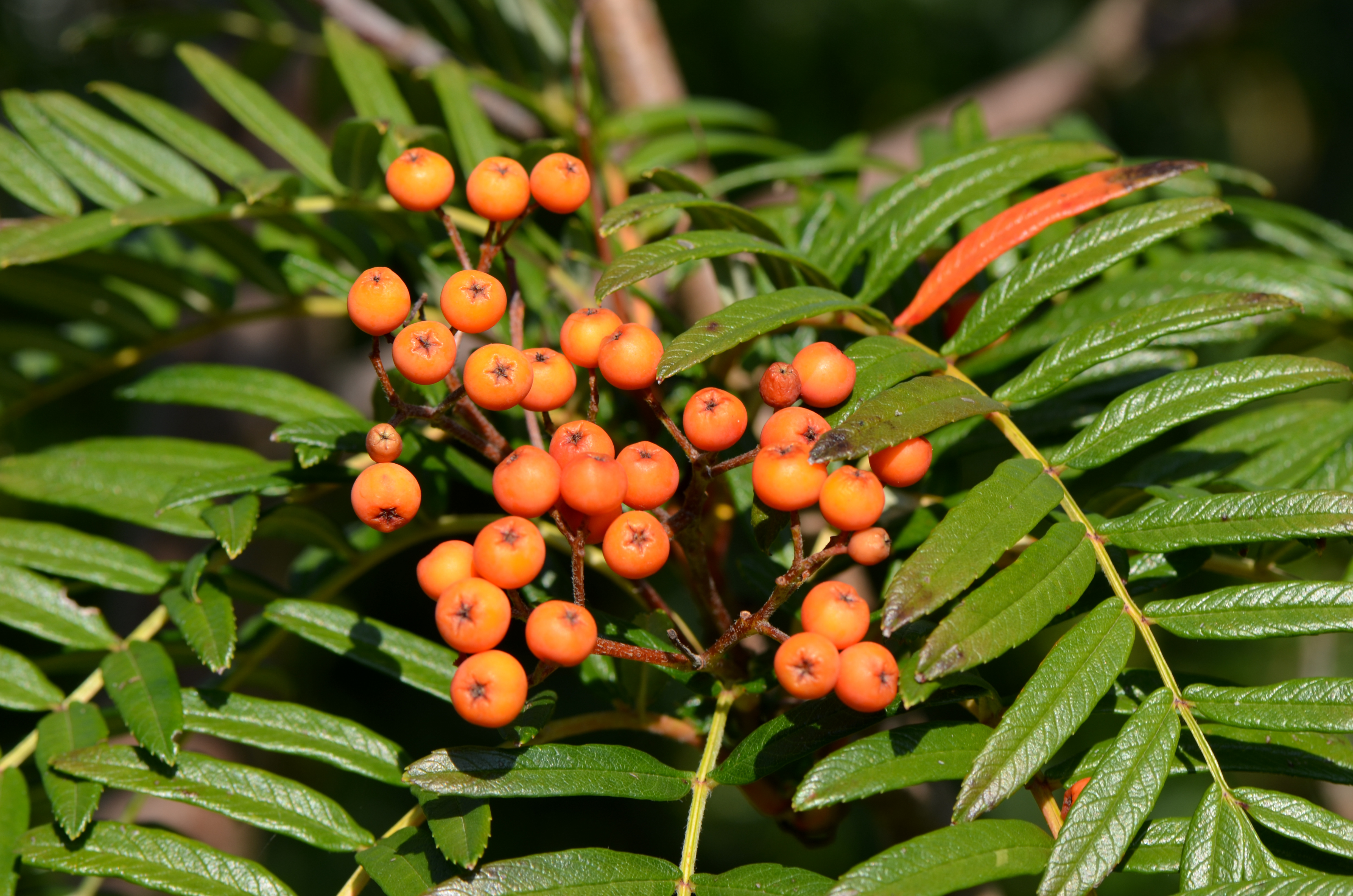 Mountain ash with berries - Sorbus scalaris